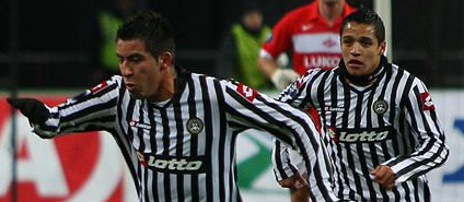 Udinese, Italian football club.